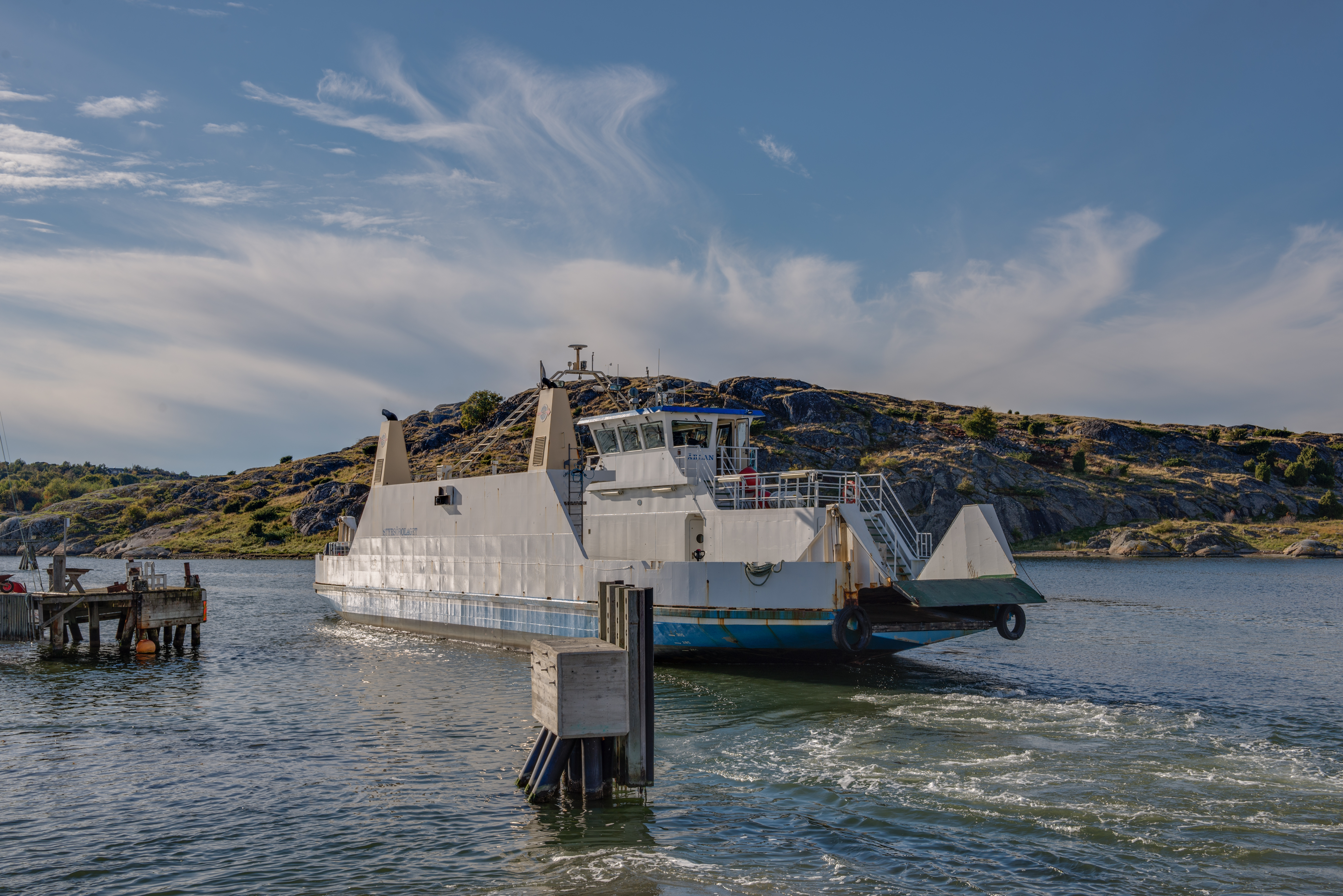 Cargo ferry Ärlan in the straight between Asperö and Rivö, in the southern archipelago Gothenburg.